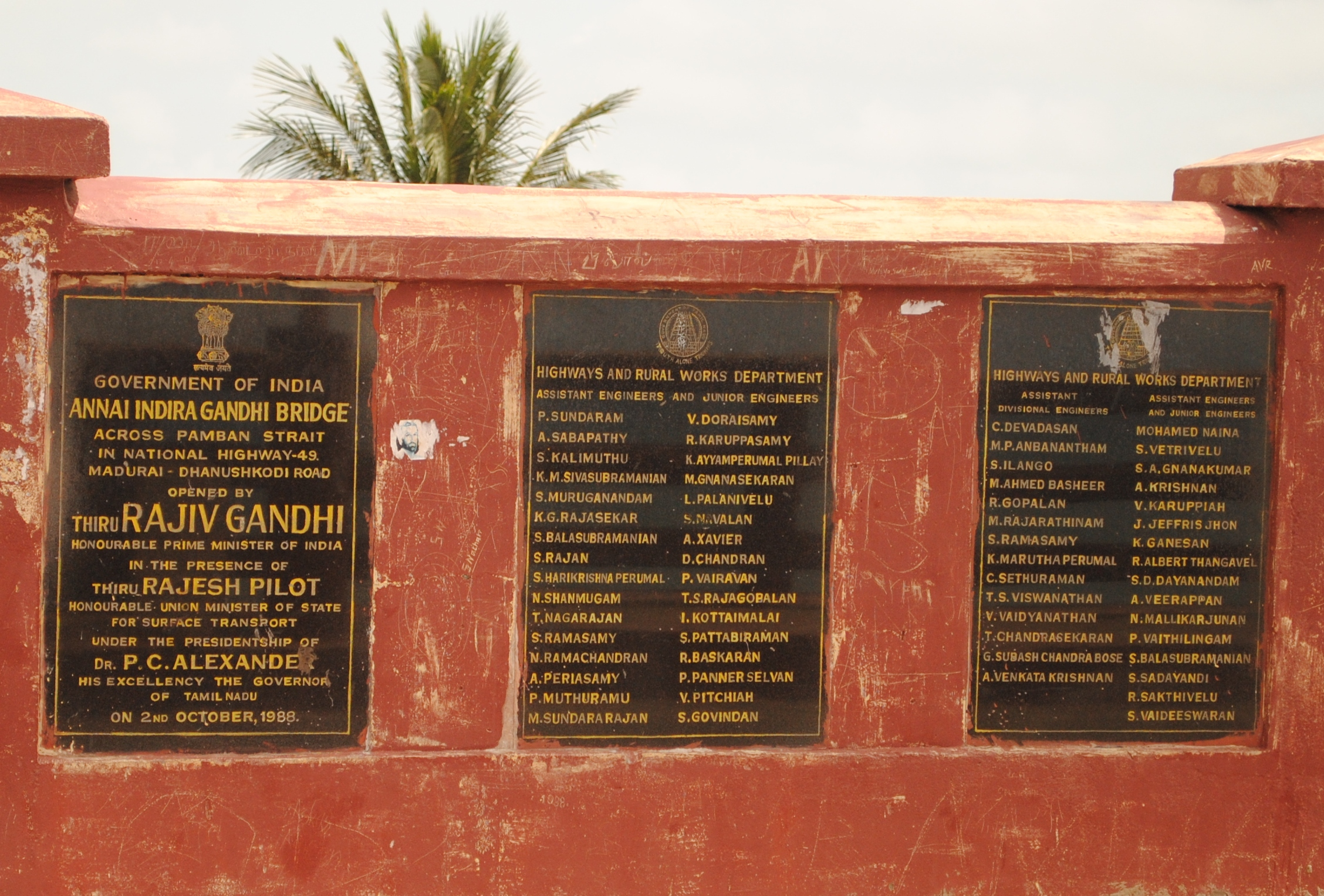 Commemorative plaque for Pamban Bridge inauguration